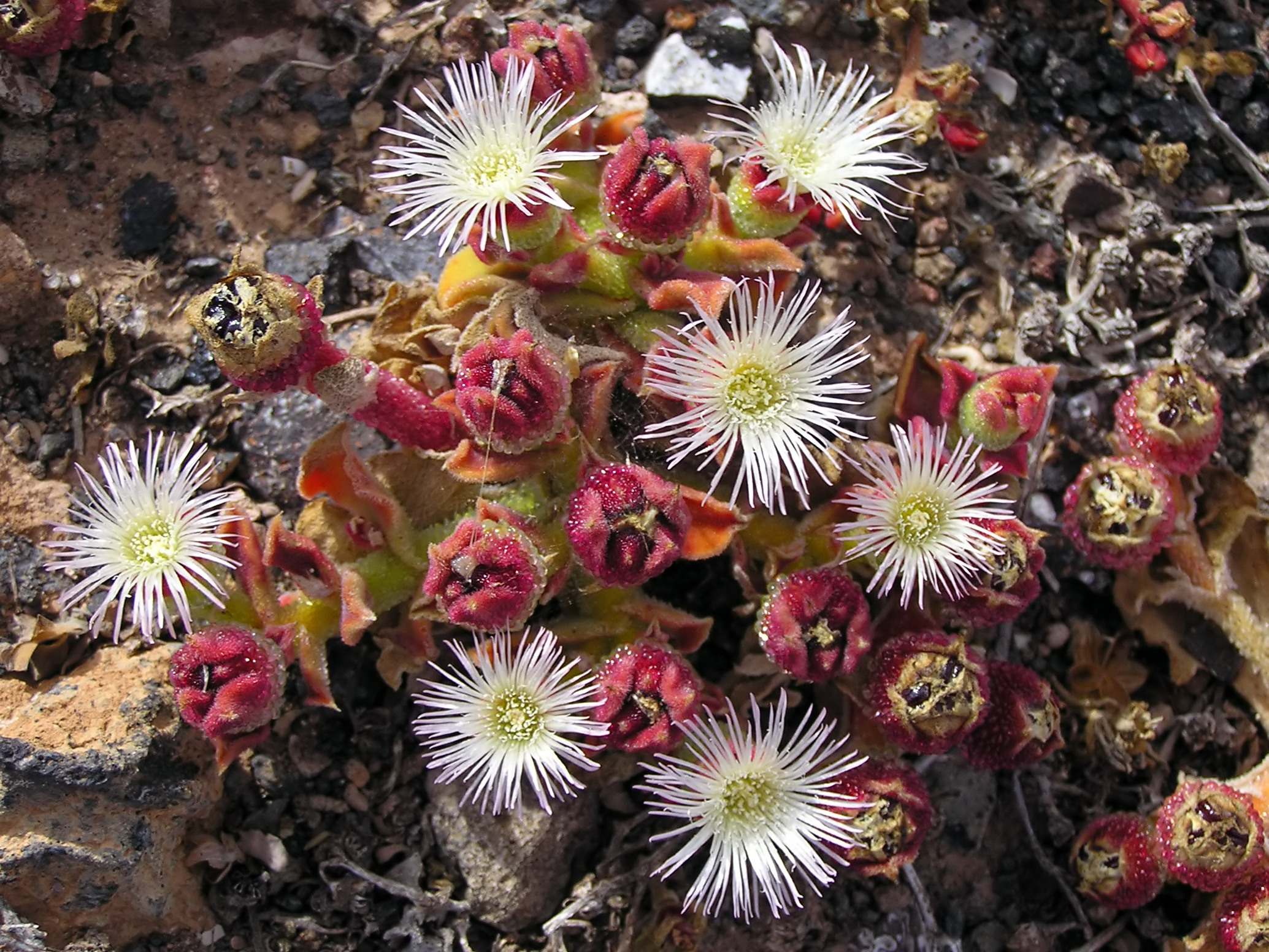 Mesembryanthemum crystallinum, entire plant. Photographed in the wild in the La Geria region of Lanzarote.